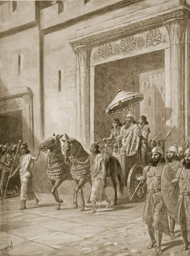 The Recognition of Esarhaddon as King in Nineveh, illustration from 'Hutchinson's History of the Nations', c 1910-15